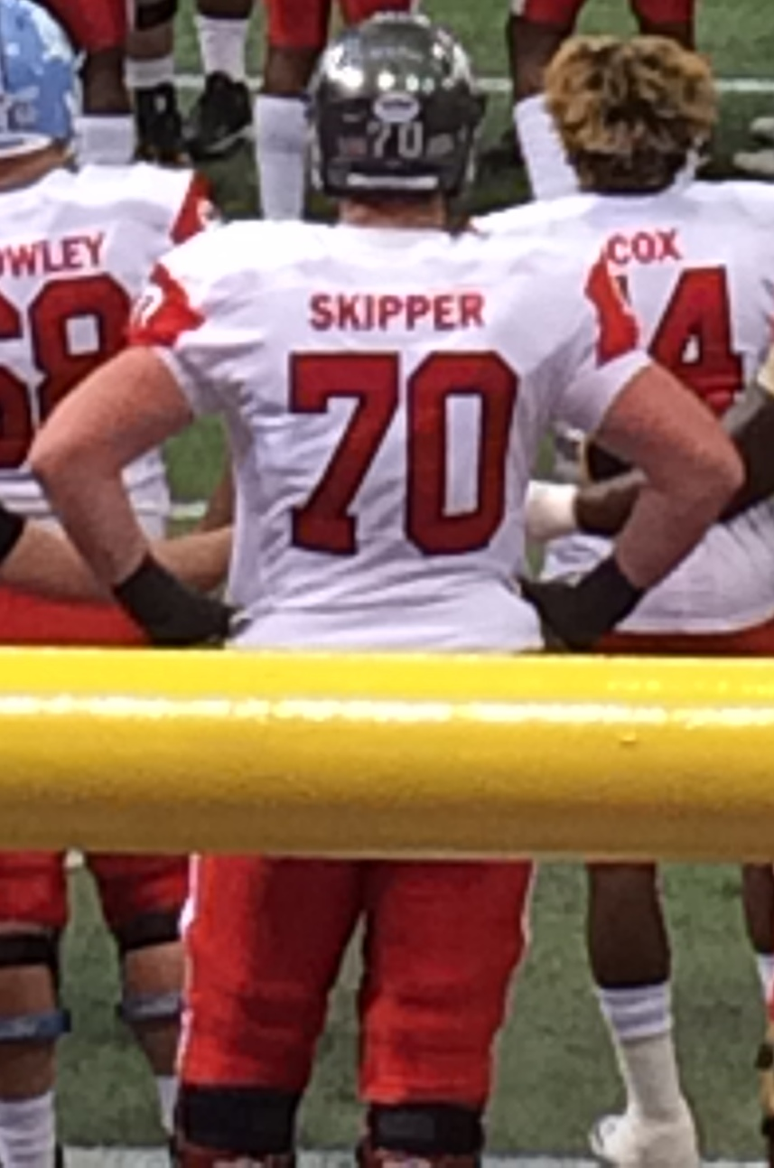 East Team warming up during the 2017 East-West Shrine Game